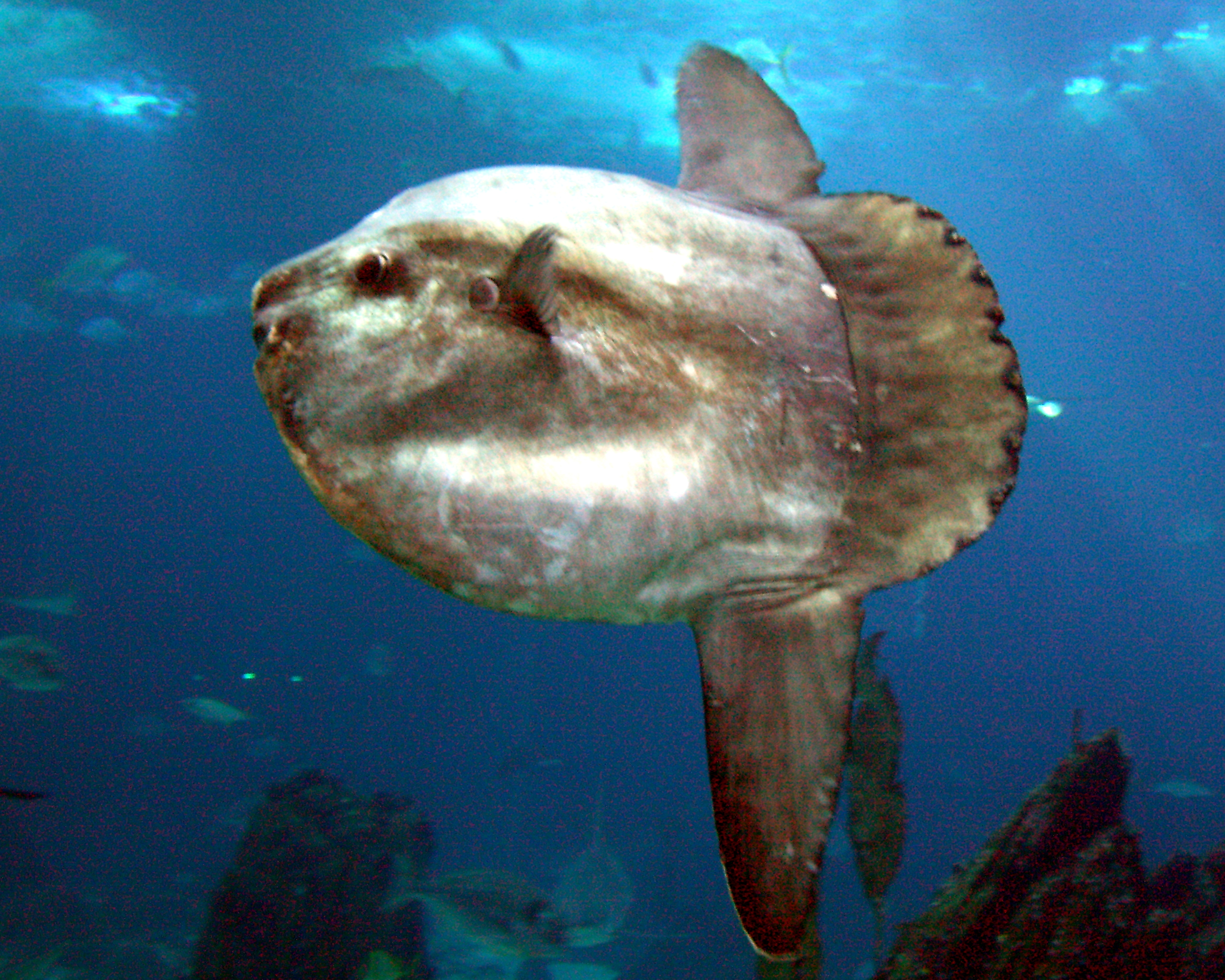 An ocean sunfish, Mola mola, in Oceanario de Lisbon (Lisbon Oceanary). Modified version of original image by Nol Aders.